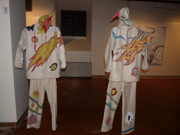 Dress devils salou